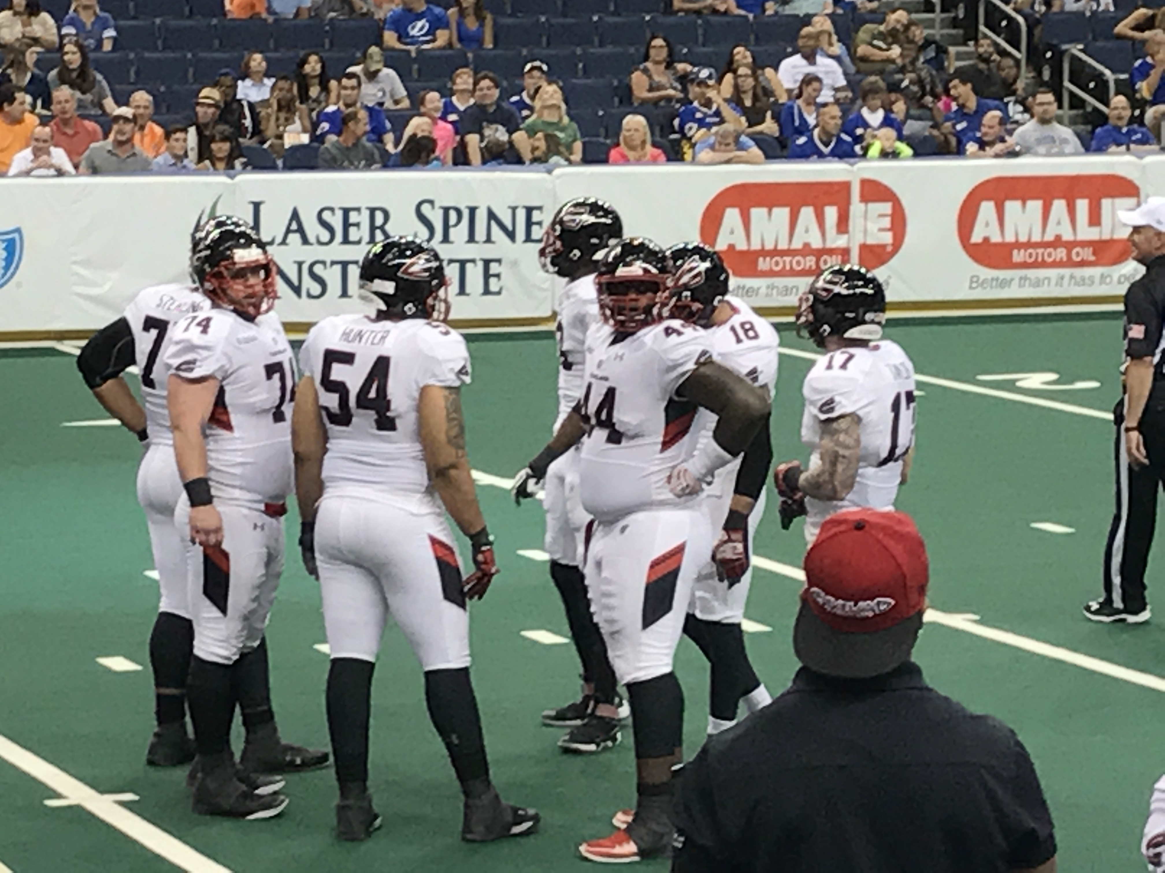 Cleveland Gladiators offensive huddle